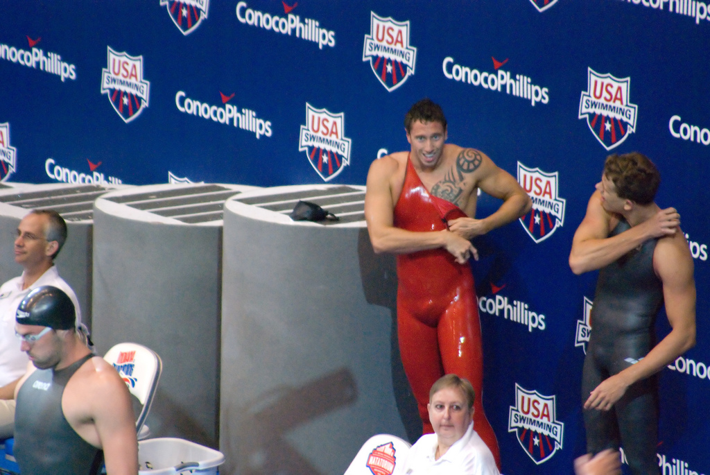 French swimmer Frédérick Bousquet during 2009 US Nationals (Indianapolis)